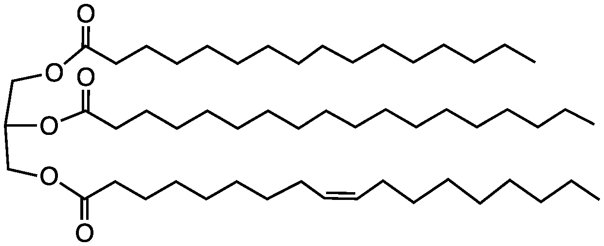 the main triglyceride in cocoa butter